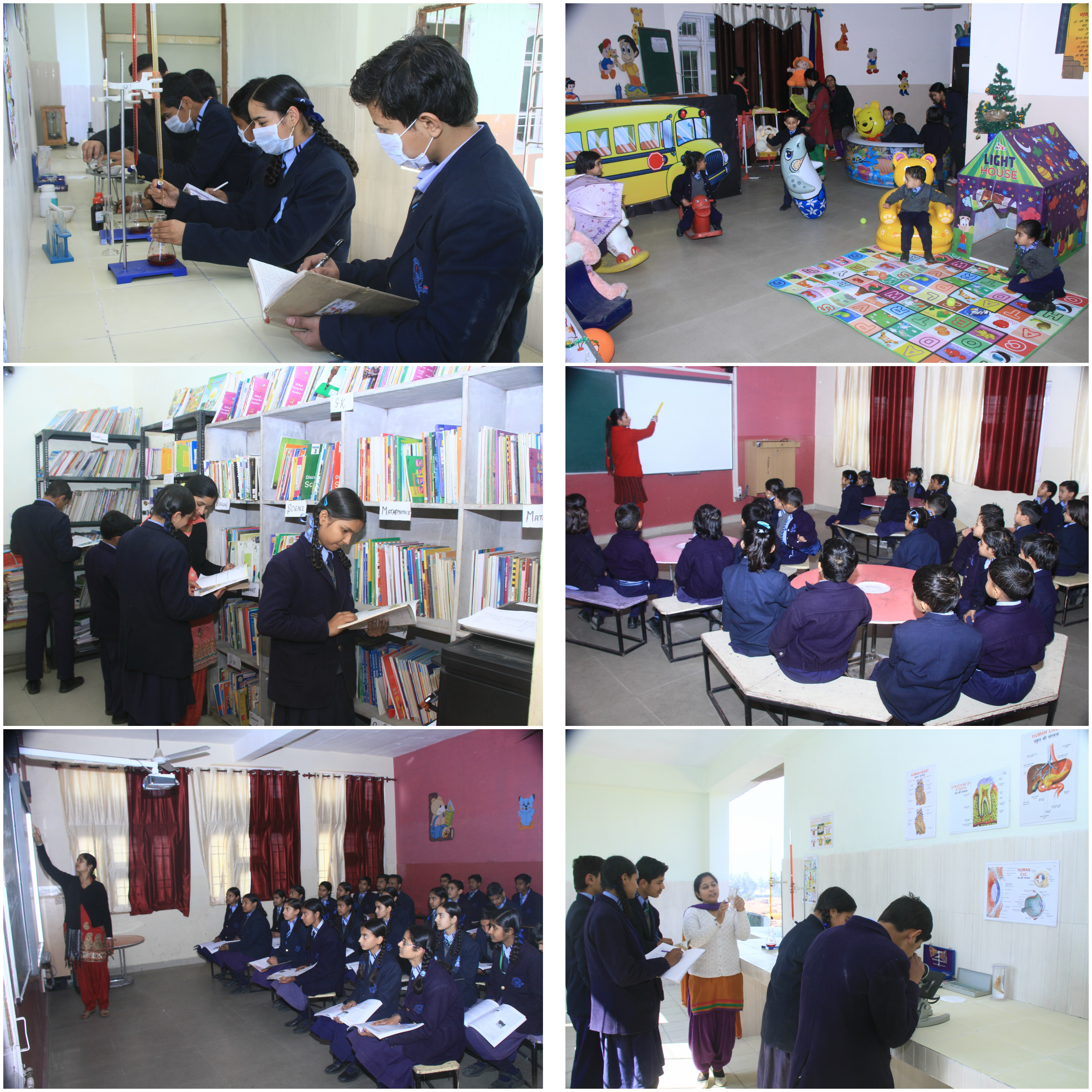 This indoor school pics